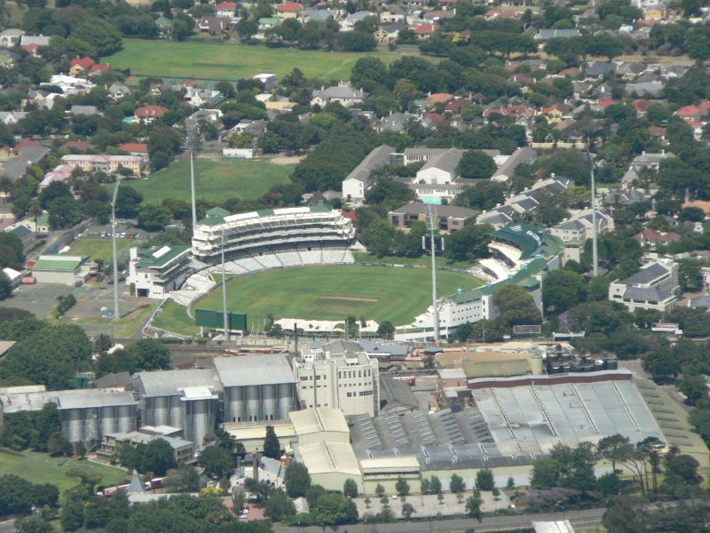 Skyview of the Newlands Ground.